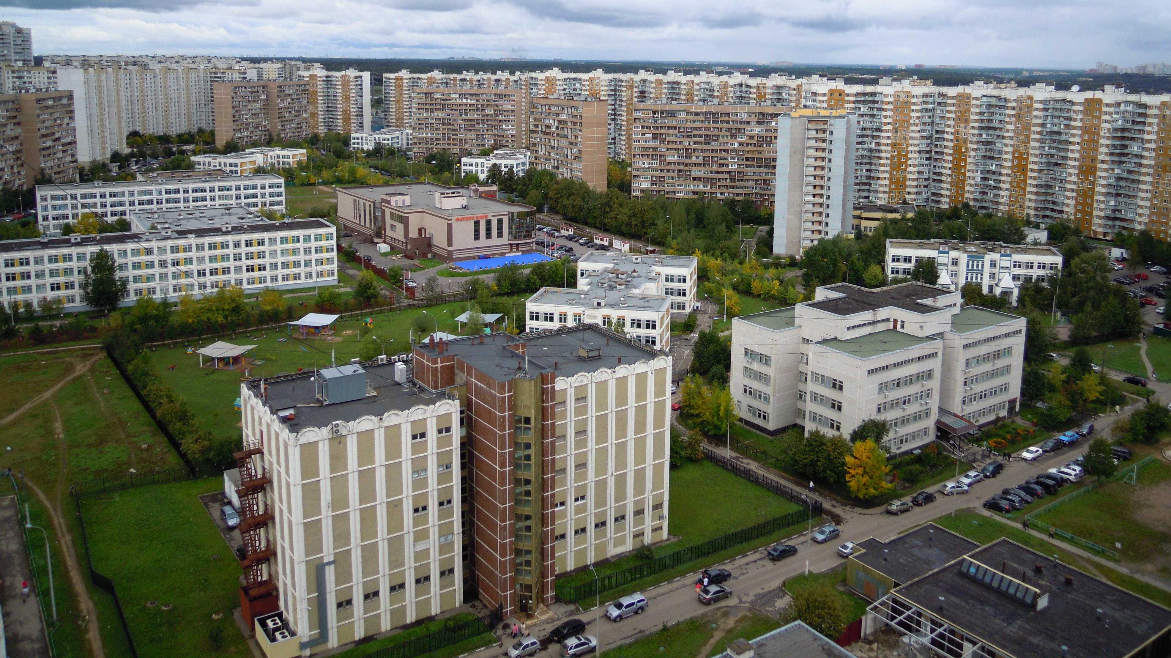 Russia, Moscow, Mitino municipal division, microdistrict #3. Taken from 40k1, Mitinskaya St.